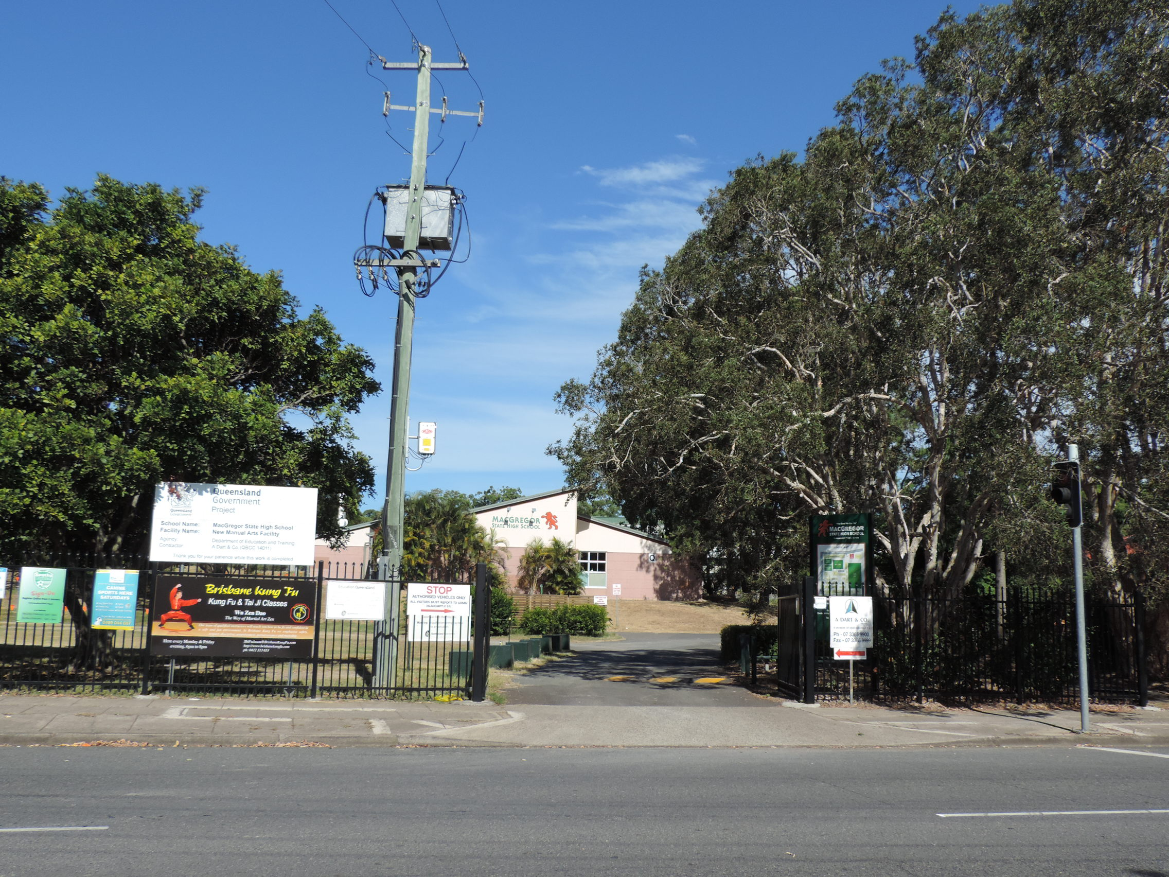 Springfield Street entrance to the MacGregor State High School, within the Brisbane suburb of MacGregor, Queensland, looking towards Upper Mount Gravatt, facing east.